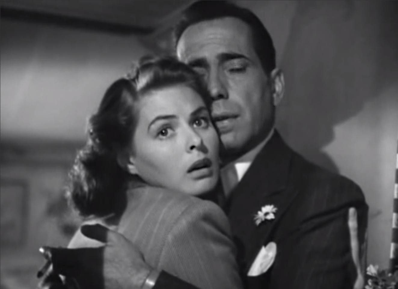 Screenshot of Ingrid Bergman and Humphrey Bogart